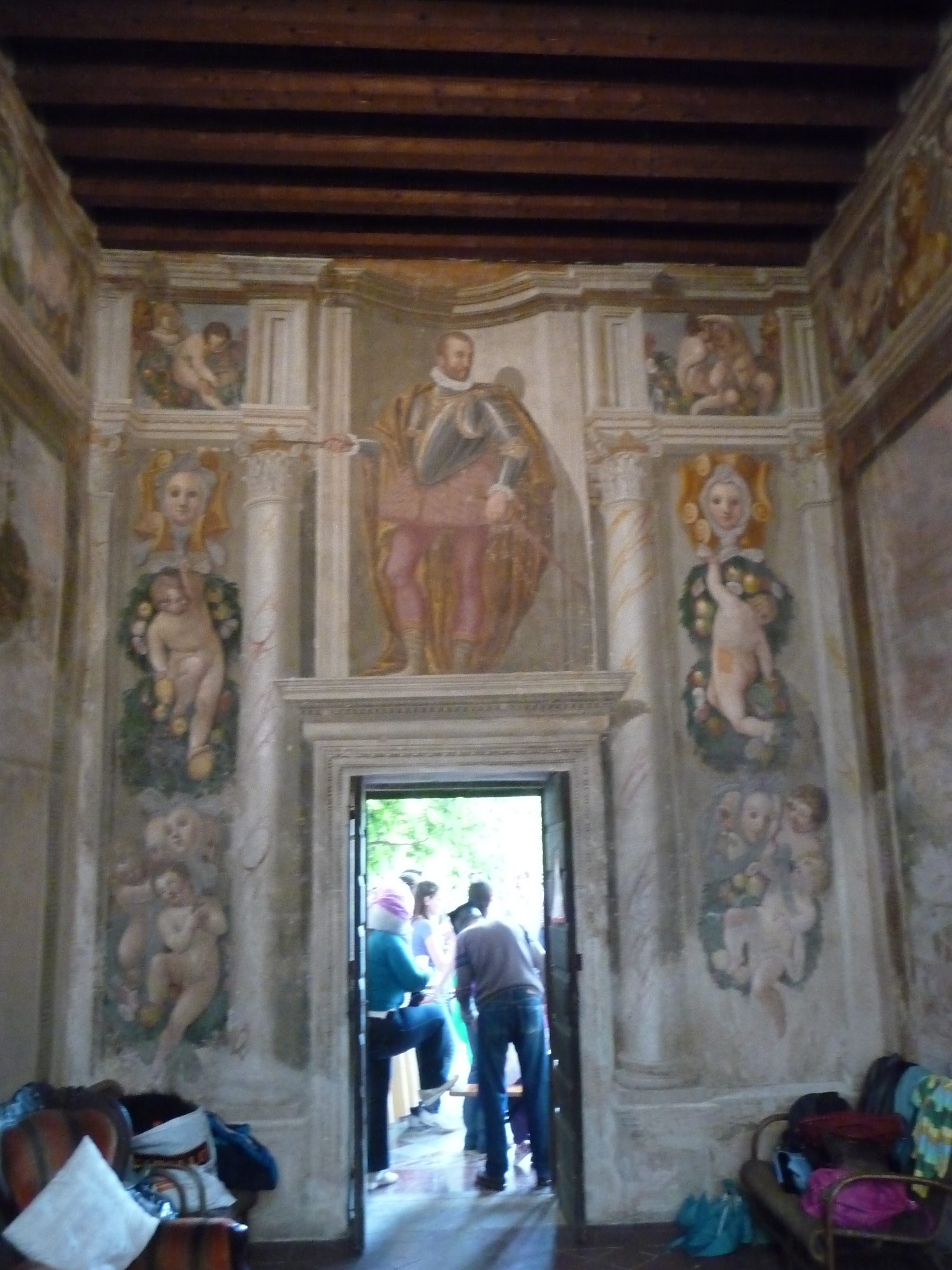 Villa Sesso Schiavo in Sandrigo, province of Vicenza.